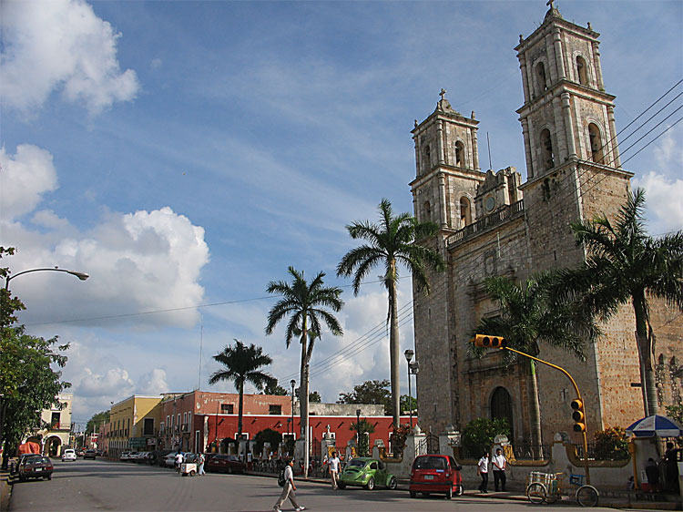 Catedral de San Gervasio, in town centre of Valladolid, Yucatan, Mexico. Taken from SW corner of Parque Francisco Canton Rosado, intersection of Calles 41 & 42. Taken by User:(WT-shared) ByeByeBaby. December 8, 2005.